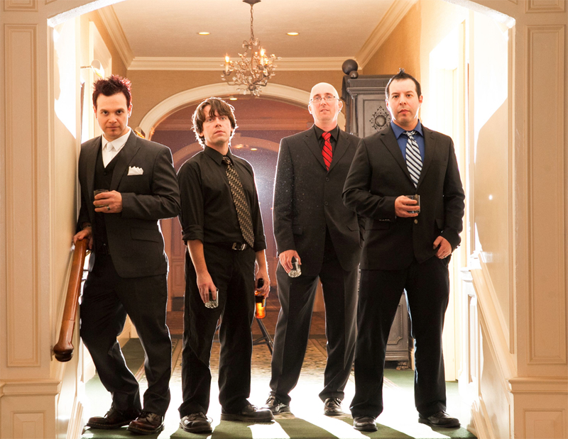 2014 Press Photo for the Alt Rock/Powerpop band, SPiN